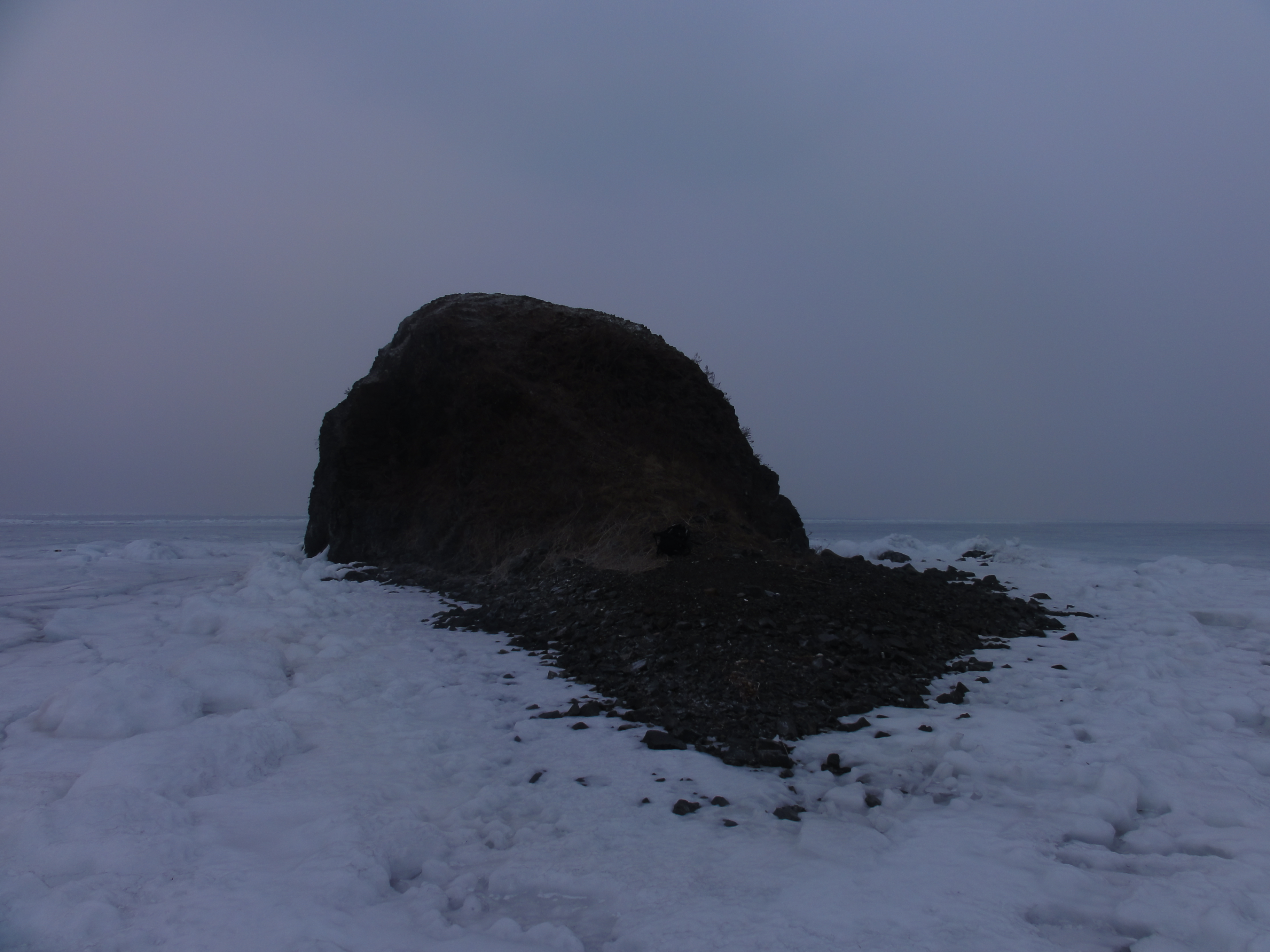 Matveev rock.